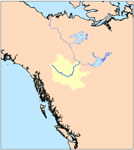 This is a map of the Liard River drainage basin.